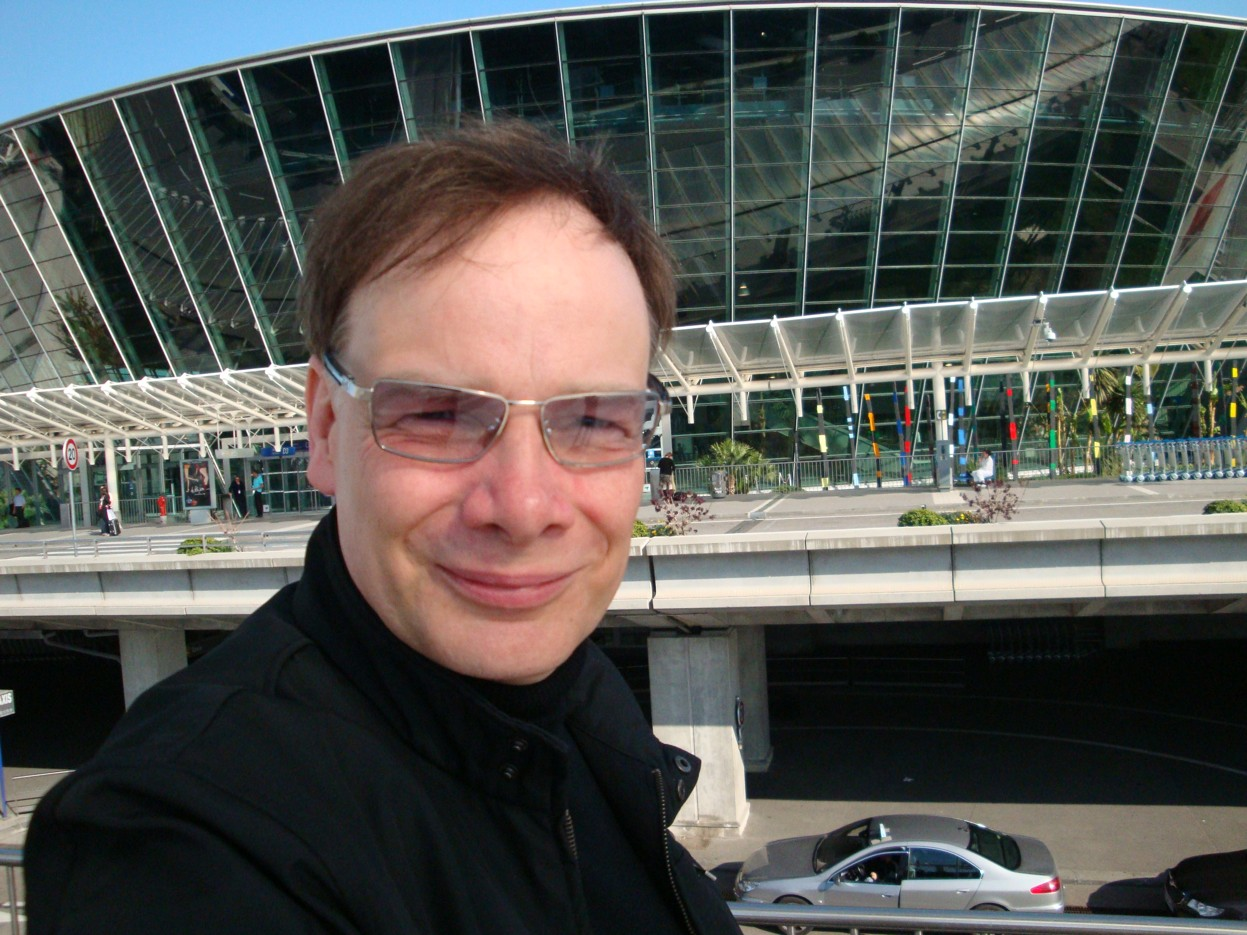 Bernd Loehr - cinematographer